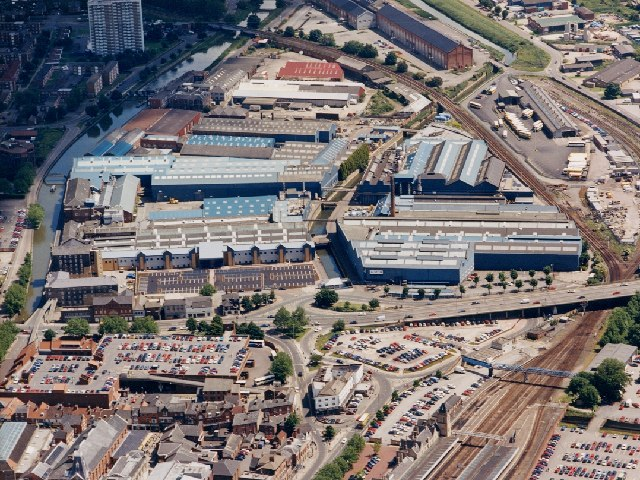 Pelham Works. This is the site of Lincolns largest employers. Currently owned by Siemens it has been known by many names including Alstom, European Gas Turbines and Ruston & Hornsby to name a few. They are one of the worlds largest Industrial Gas Turbine manufacturers.